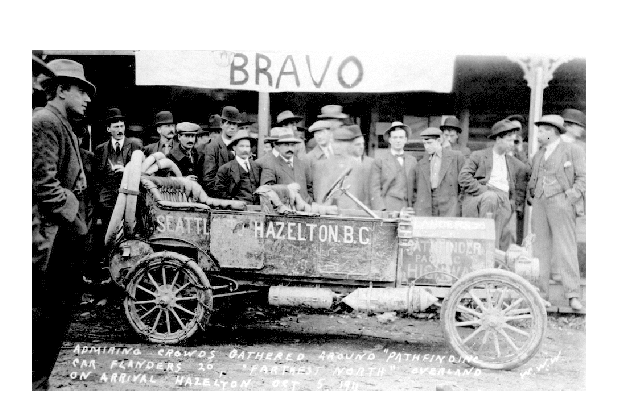 Photographer: W.W. Wrathall. Original title: "Admiring crowds gathered around pathfinding car Flanders 20, farthest north overland on arrival, Hazelton." According to the author's description, the car was bright red, with solid tires: "In the summer the dirt roads dried up and became almost passable, so much so that one truck came into town. It was the first automobile most of us had seen, bright red with solid tires."